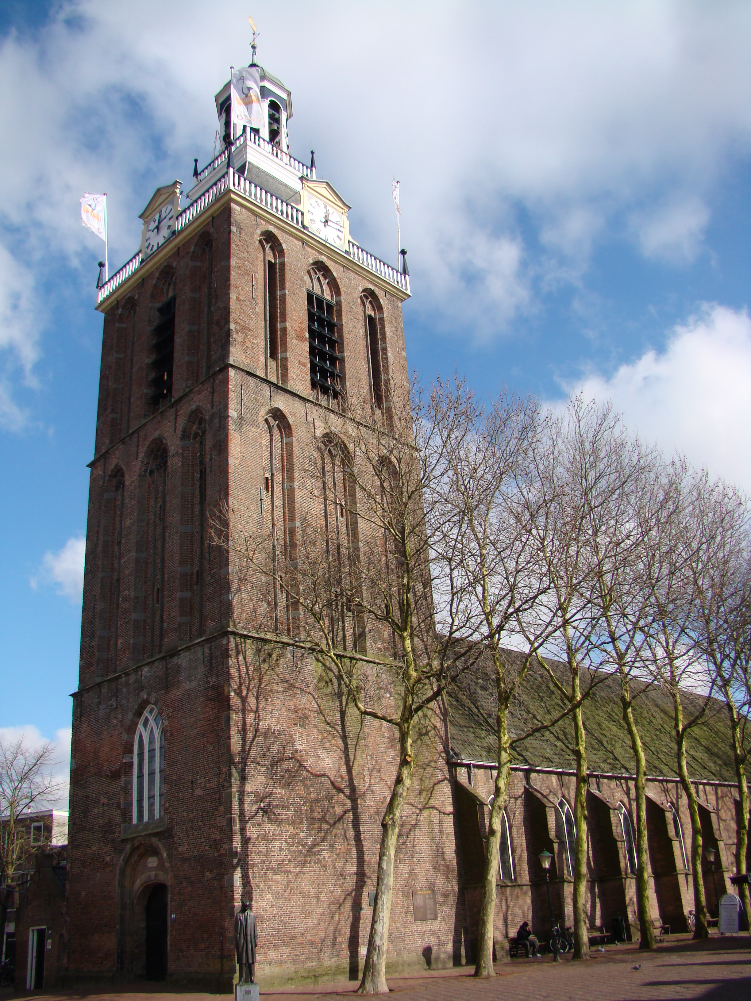 Great- or Maria Church at Meppel Netherlands